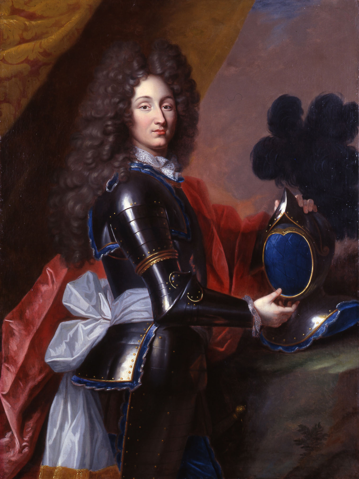 Portrait of Franz Heinrich von Staeffis-Mollondin (1673-1749)